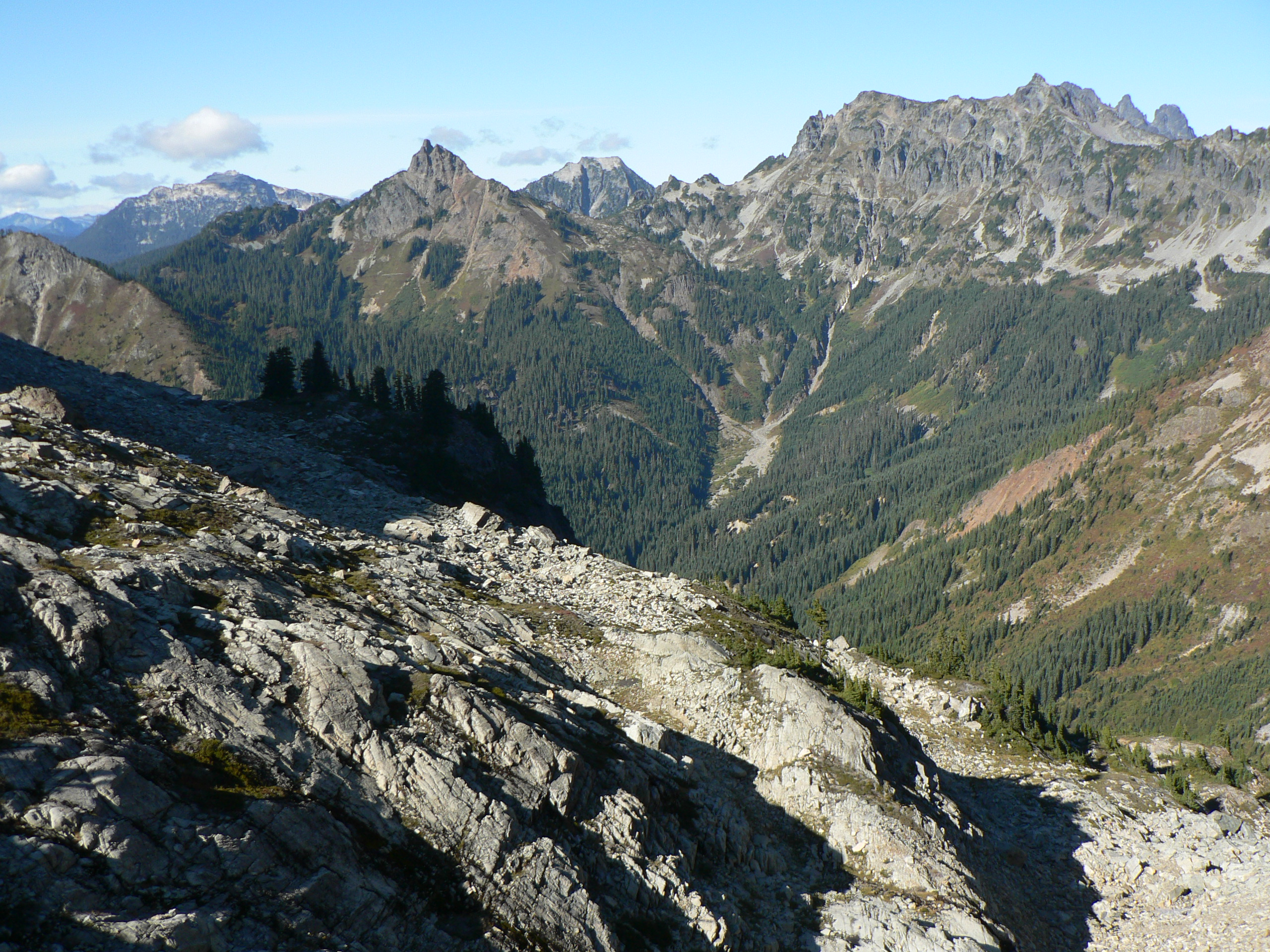 Huckleberry Mountain 6340 feet; also, Big Snow Mountain (6680 feet), Point 6480 feet, Chikamin Peak (6960 feet) and Lemah Mountains (7540 feet)